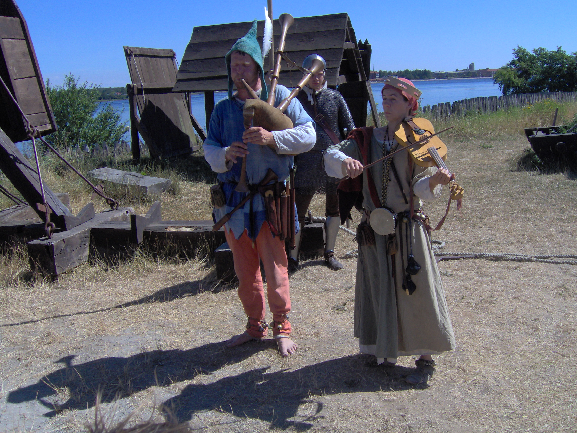 Musicians from the Danish medieval trio Truppo Trotto at The Medieval Centre in Denmark.